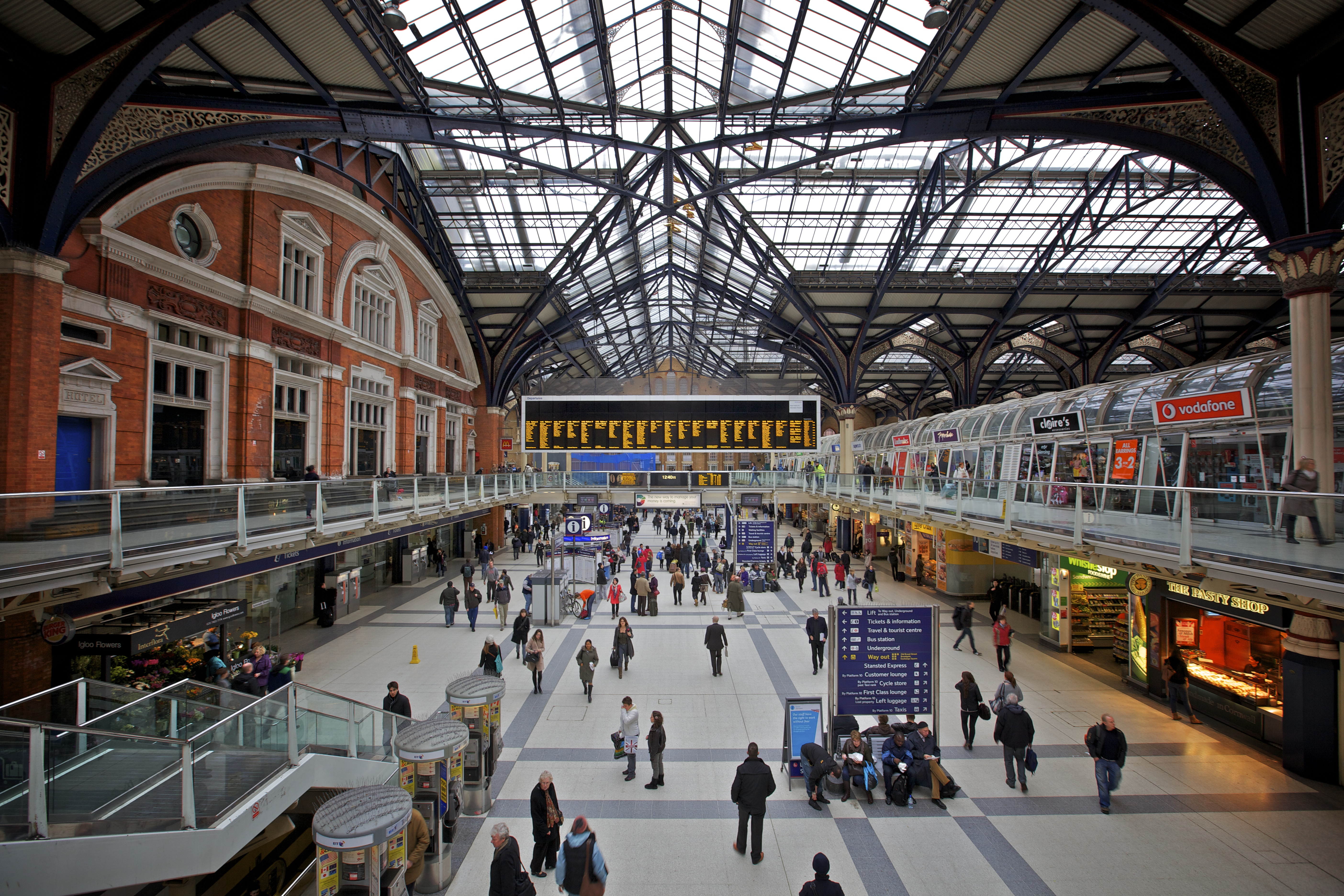 The concourse of Liverpool Street station, London, England.